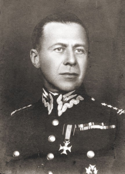 Konstanty Drucki-Lubecki (1891-1940) - Colonel of the Polish Army